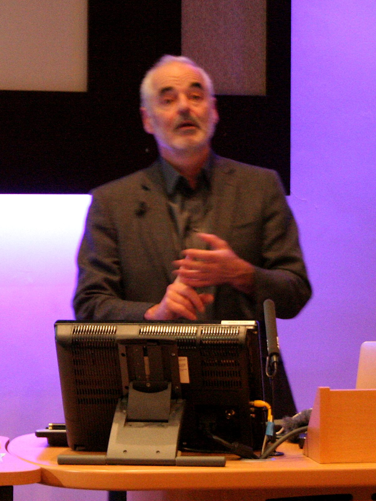 David Spiegelhalter presenting the 2013 Cambridge Science Festival talk "How to Spot a Shabby Statistic" at the Babbage Lecture Theatre, Cambridge, England.